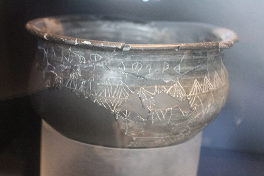 Pot amb grafit en ibèric del Museu Ibèric de ca n'Oliver